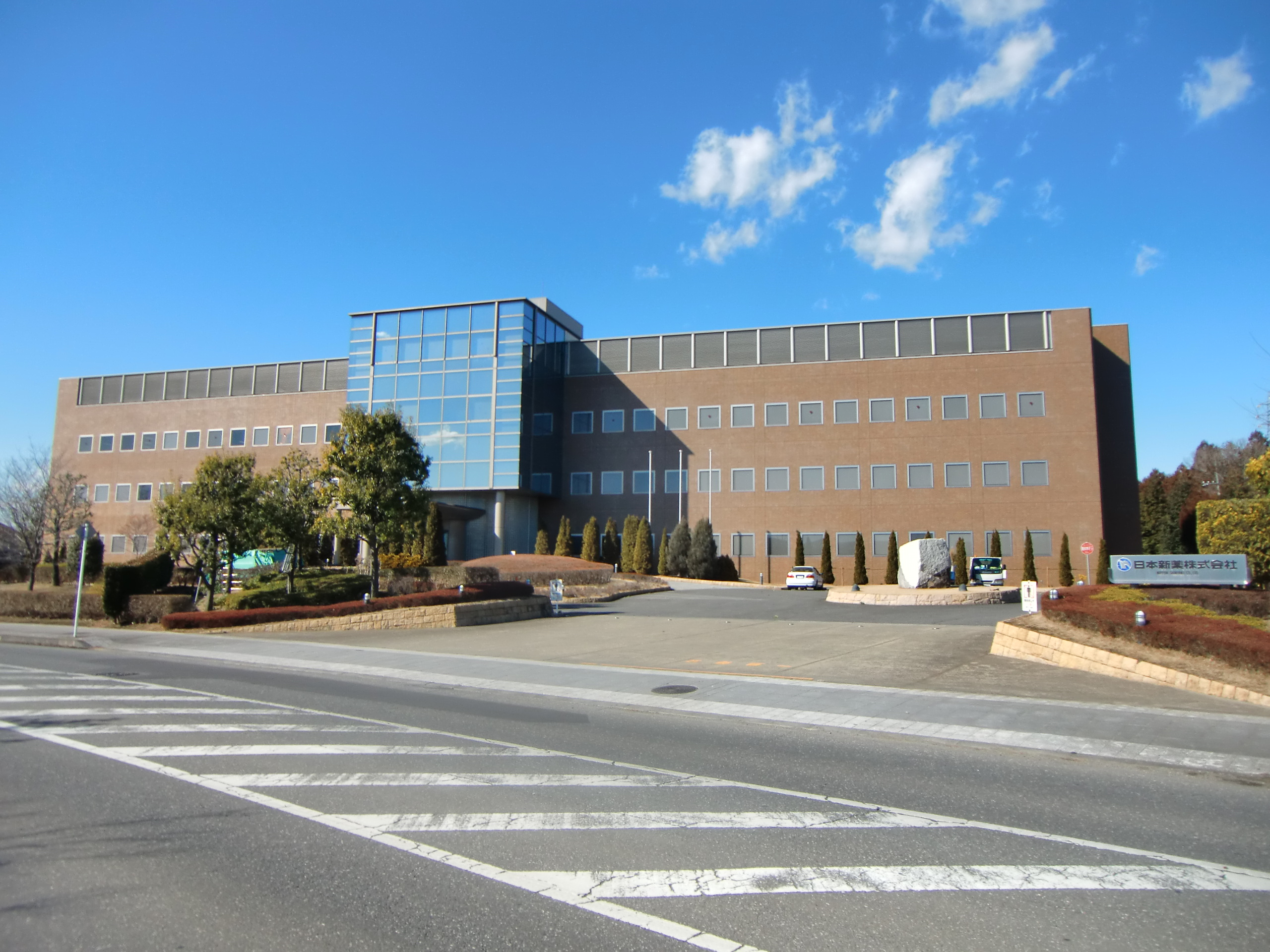 Nippon Shinyaku CO.,LTD Tsukuba Research Laboratory / Ibaraki business office, in 14-1, Sakura 3-chome, Tsukuba city, Ibaraki pref., Japan.